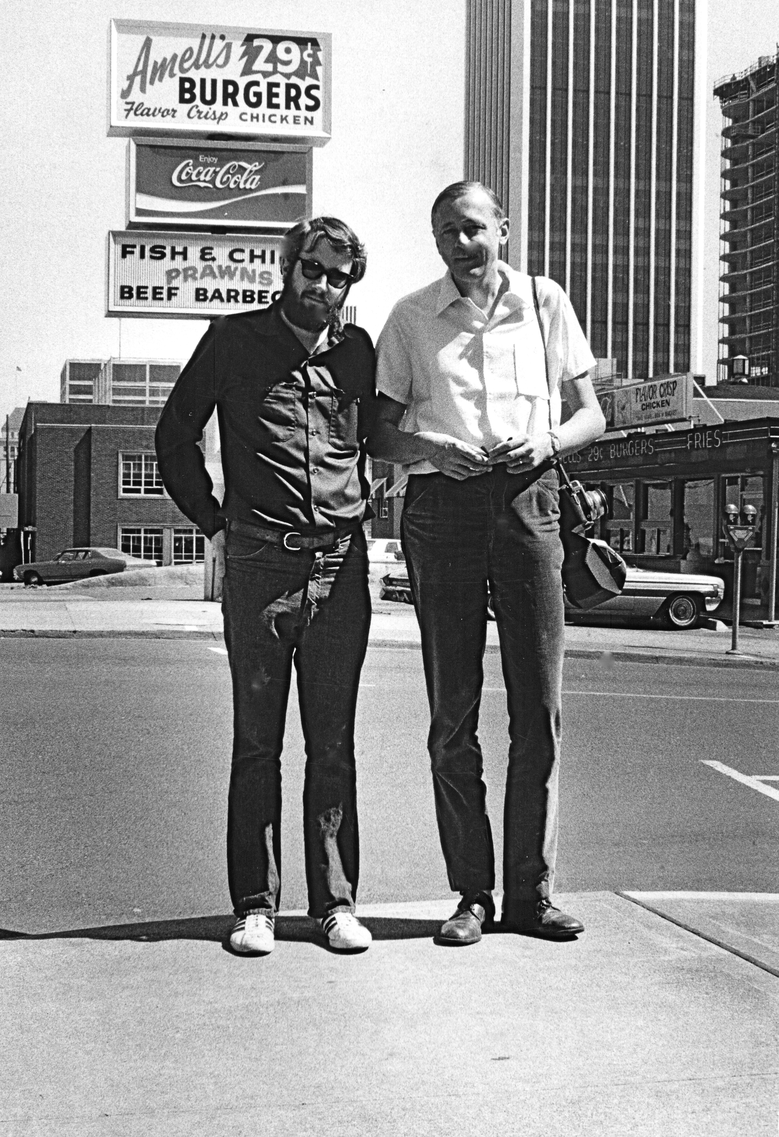 The photo was taken near Portland State University, across from the Smith Memorial building, in the mid-1970s.